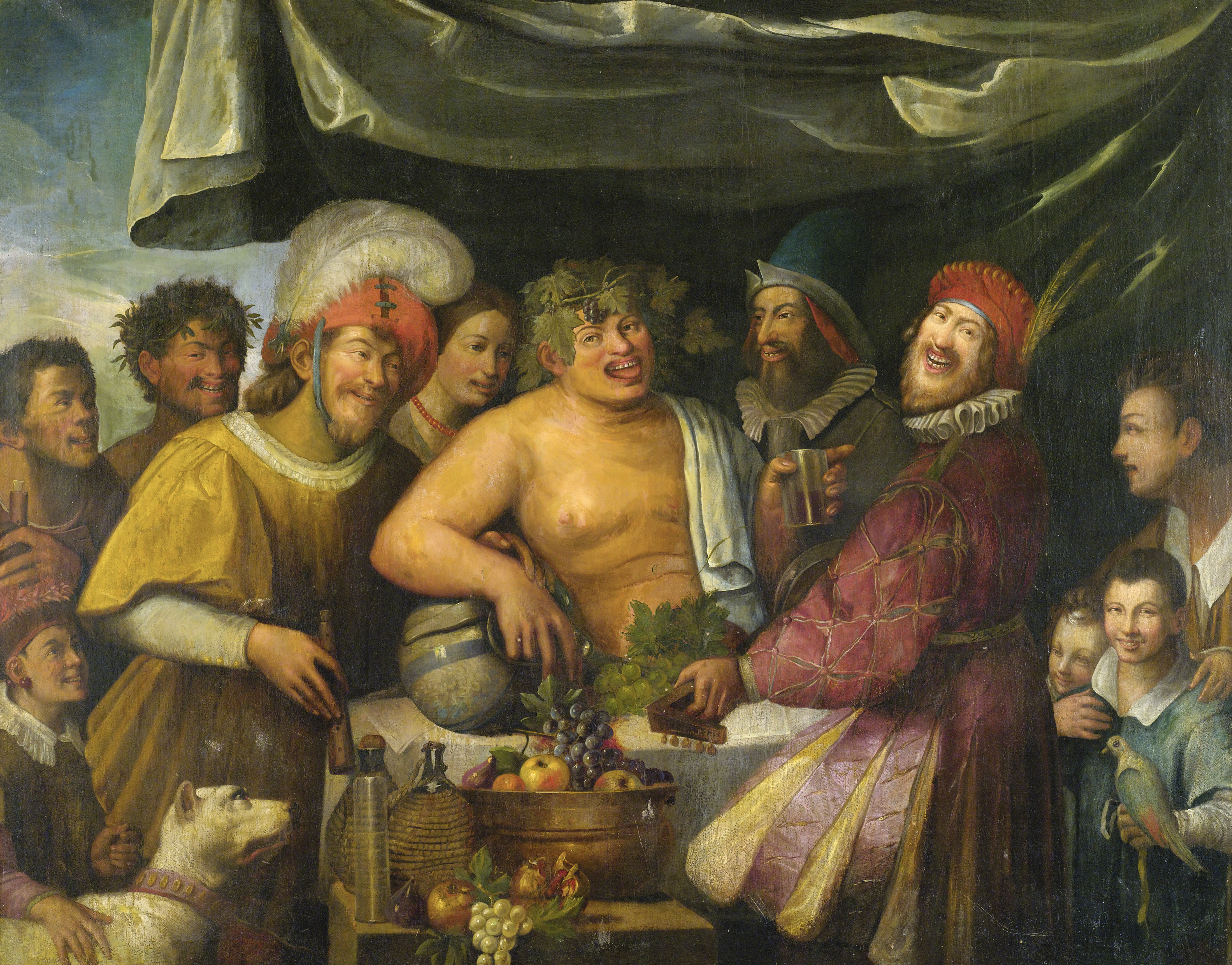 A Bacchanal. Oil on canvas, 186.2 x 232.4 cm.